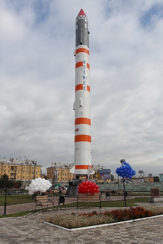 Model of Rocket of SibSAU before the building of university